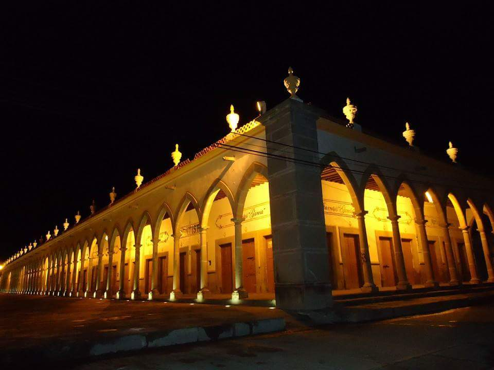 Plaza in Ojuelos, Mexico. 102 gotic archs. Built in the XIX Century